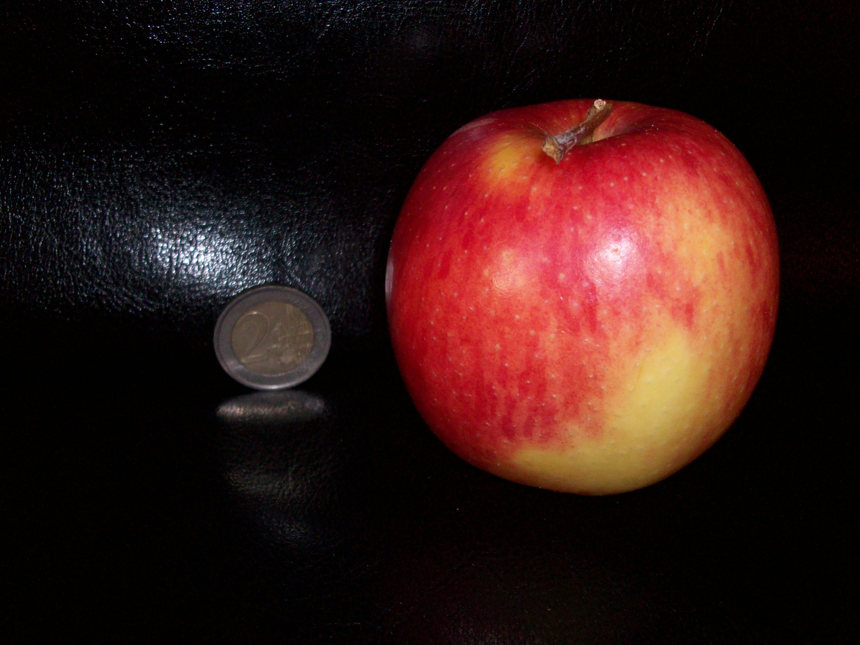 A cultivar Pinova apple with a 2 euro coin. Caliber 70/75 mm